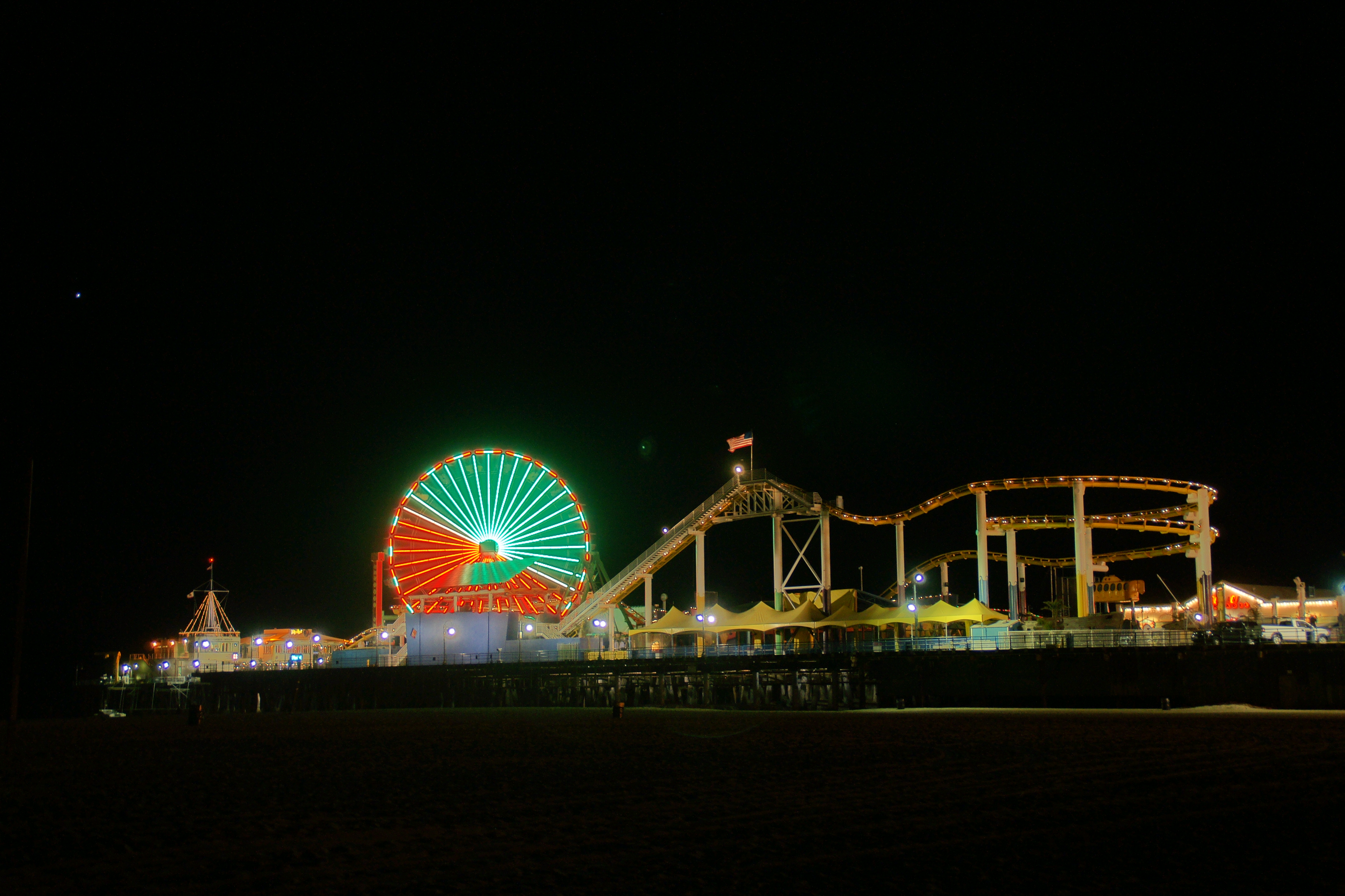 Santa Monica Pier Shot from the South at Night